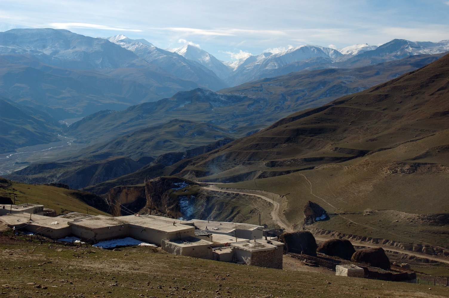 The village Buduq in Azerbaijan (region Quba)